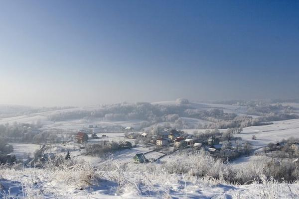 Sliwnica -zima